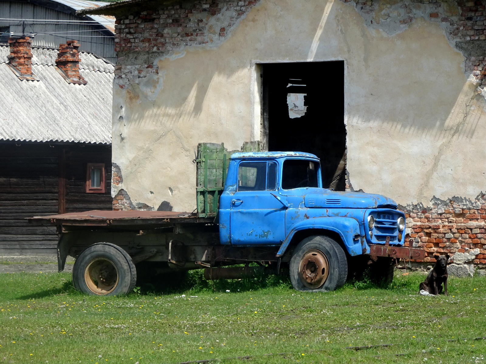 Steagu Rosu truck, Comandau, Harghita, RO